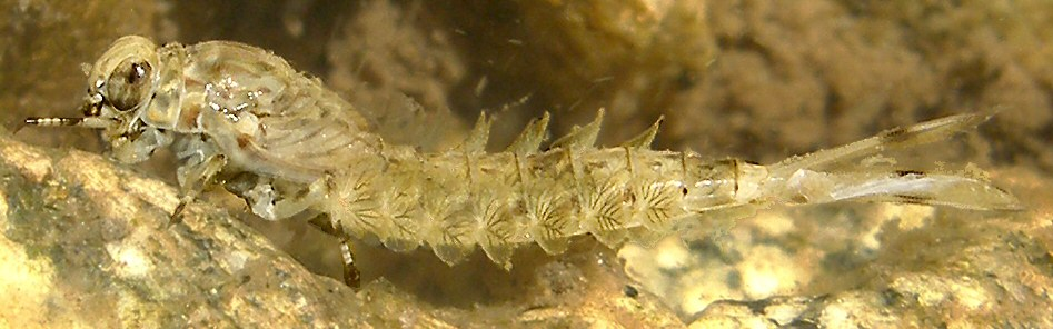 An instar of the mayfly Cloeon dipterum.